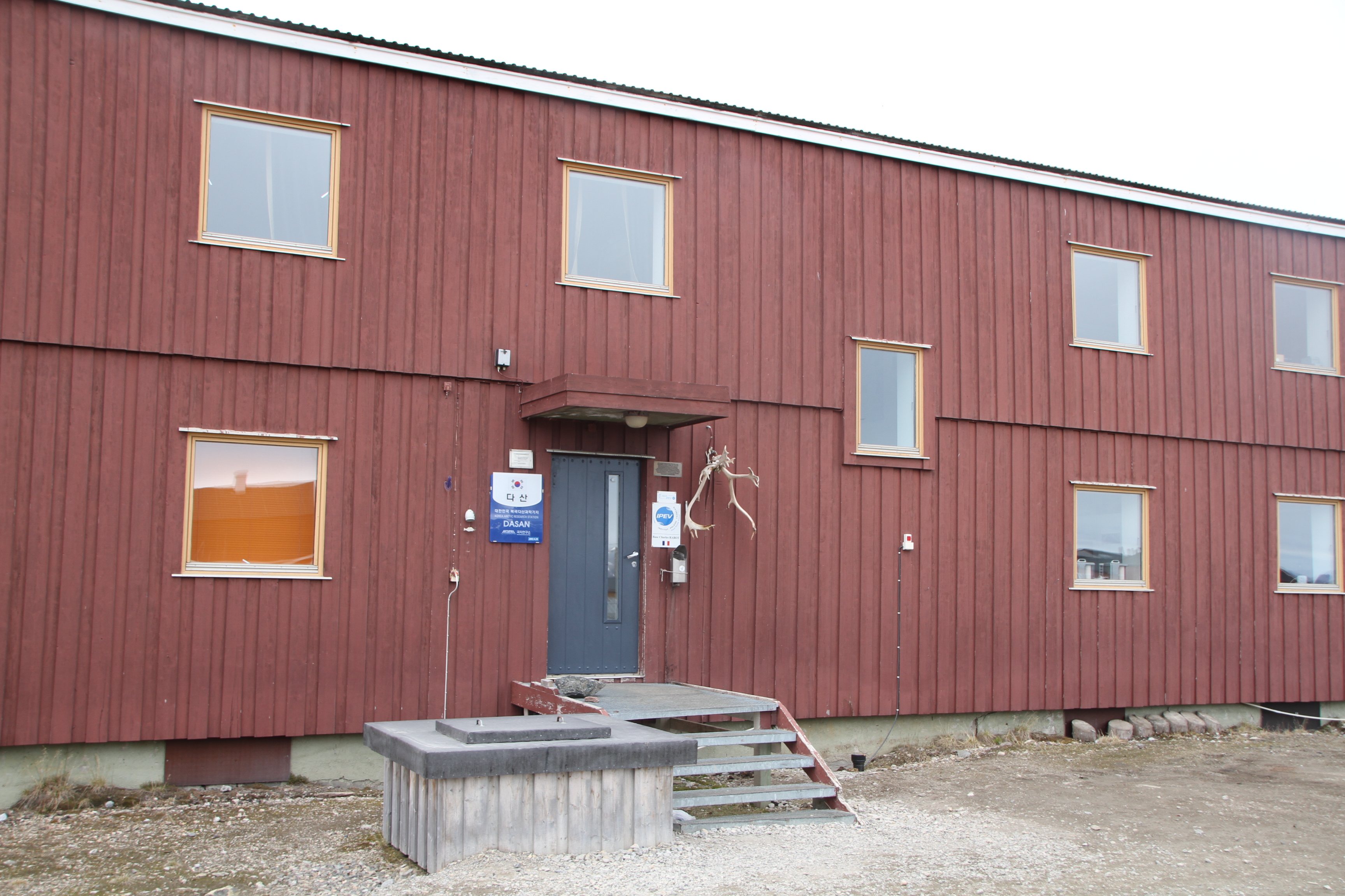 Research institution in Ny-Ålesund, western Spitsbergen.